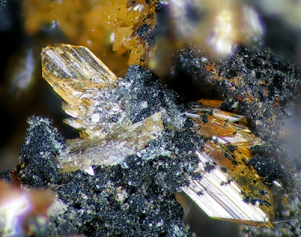 Jahnsite-(CaMnFe) Locality: Hagendorf South Pegmatite (Cornelia Mine; Hagendorf South Open Cut), Hagendorf, Waidhaus, Vohenstrauß, Oberpfälzer Wald, Upper Palatinate, Bavaria, Germany (Locality at ) Yellow Jahnsite-(CaMnFe) (analysed by EPMA and Moessbauer spectroscopy) on Rockbridgeite. Picture width 1 mm. Collection and Photo Christian Rewitzer